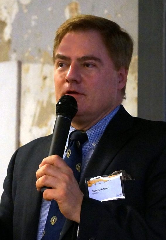 Tom Palmer in Athens, Nov. 5th, 2014